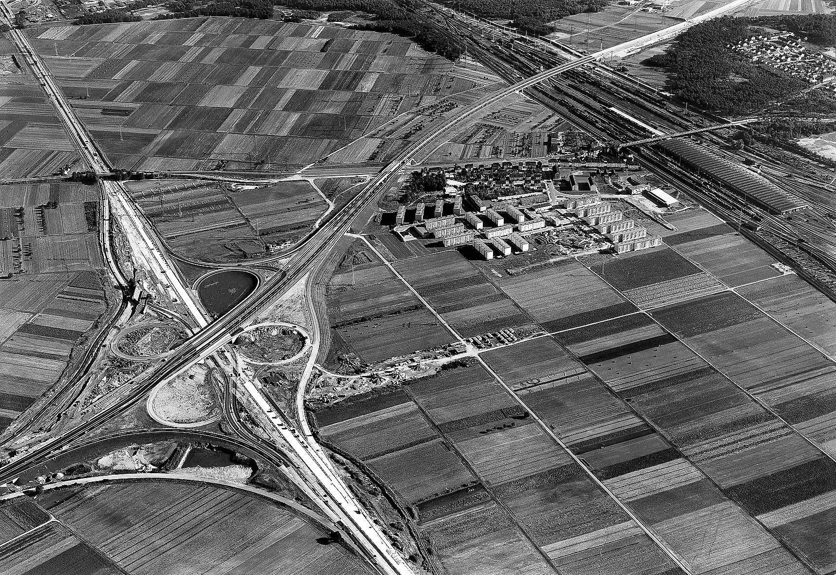 Autobahn interchange Mannheim, under construction, view direction South-East, in the background Mannheim-Hochstätt, autumn 1968 (reprography: 1991-16-25)